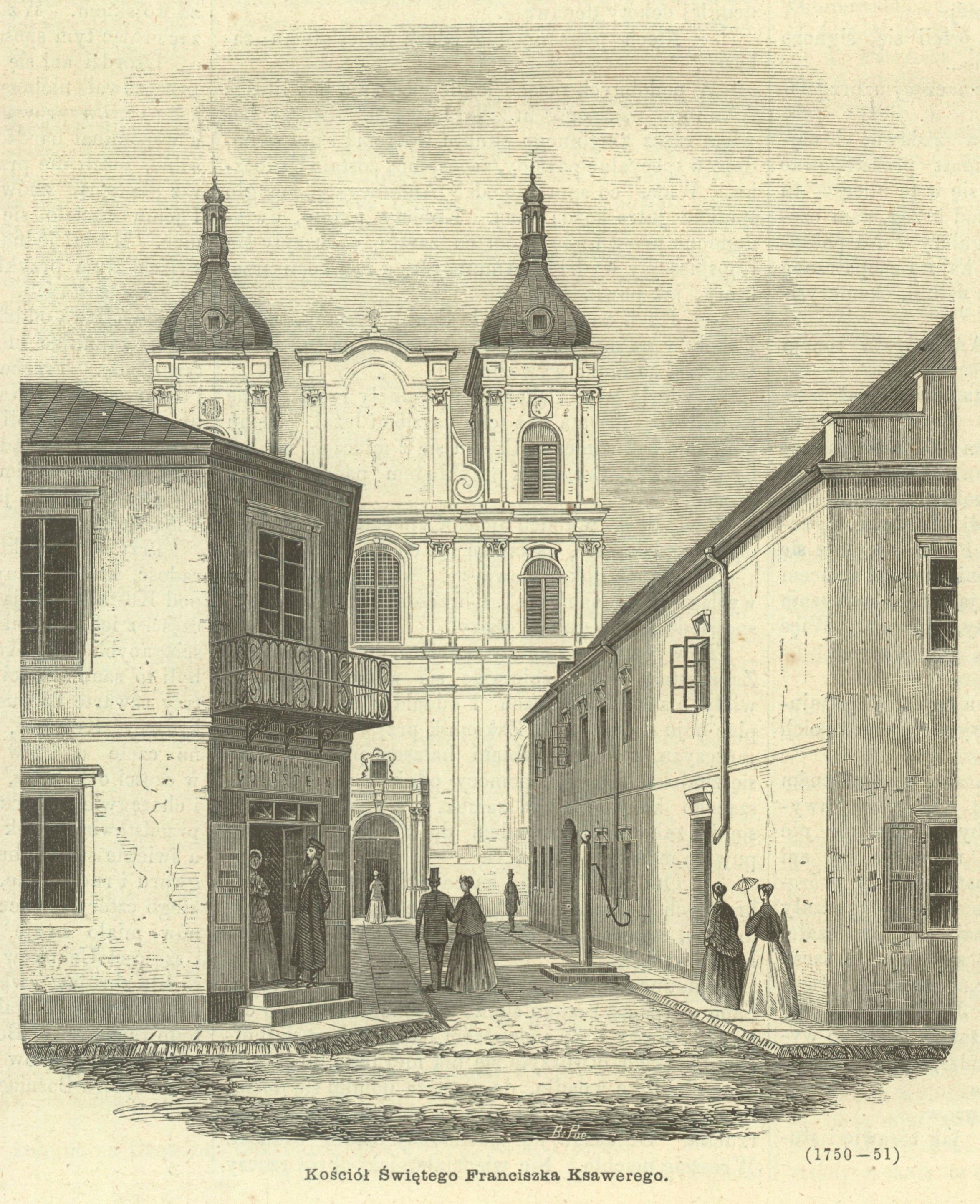 Jesuit Church in Piotrków Trybunalski in Poland, 1870.